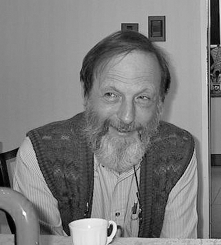 Yitskhok Niborski, yiddish scholar of the INALCO